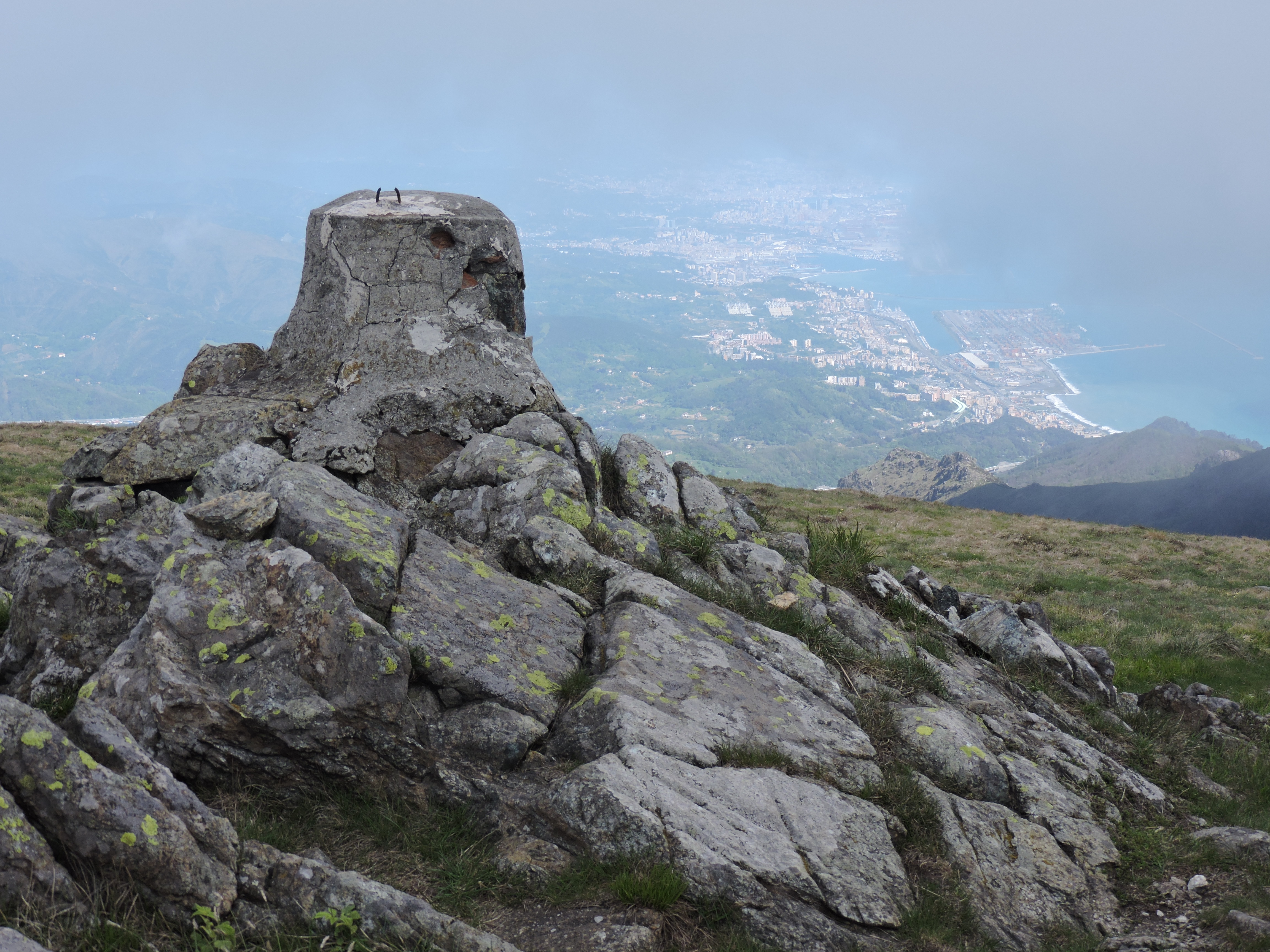 Monte Reixa (Ligurian Apennine, Italy): summit pillar, with Genova port in the background